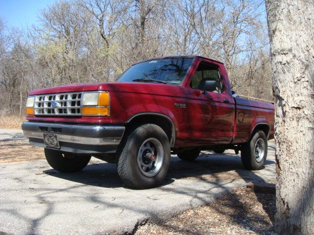 This is what a second generation Ford Ranger looks like in good condition.